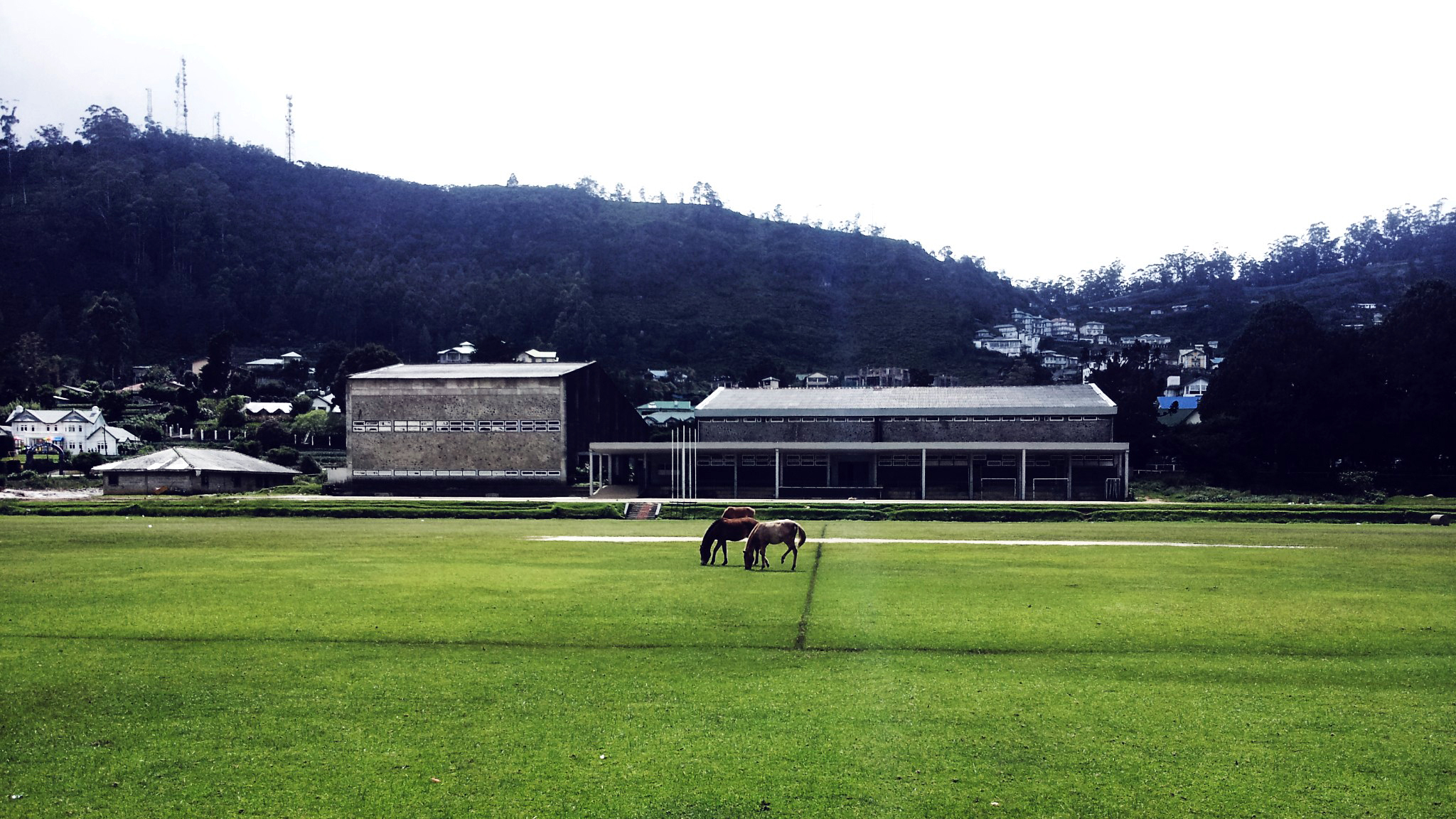 Nuwara Eliya Town Hall and racecourseGround